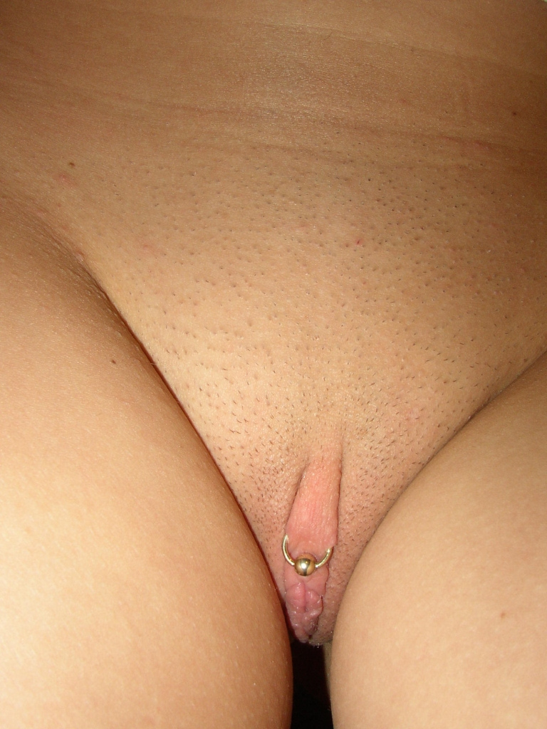 One vulva says more than a thousand words. Be courageous - post your poontang.